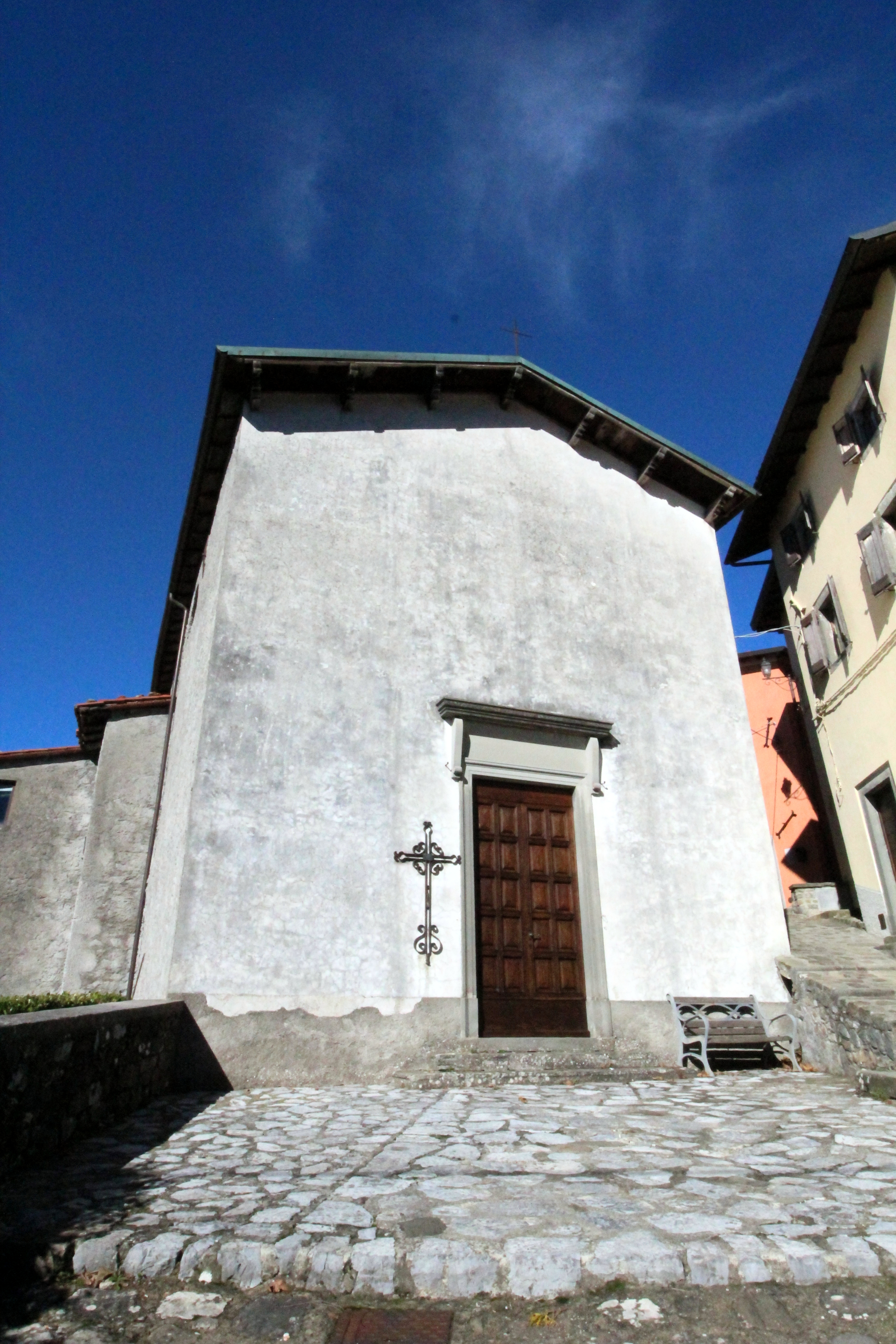 Church Madonna Addolorata in Lupinaia, hamlet of Fosciandora, Garfagnana, Province of Lucca, Tuscany, Italy